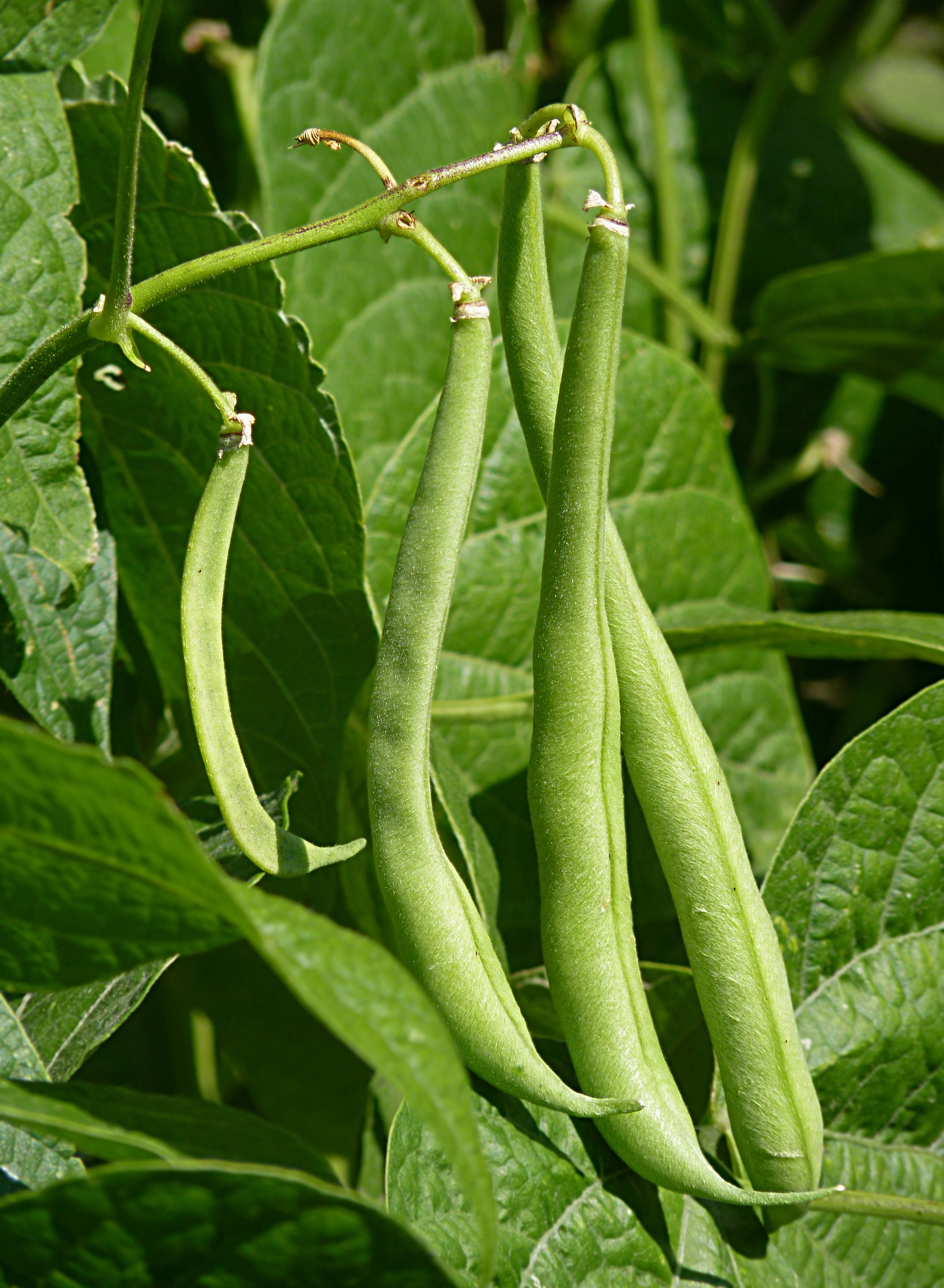 French beans, in a vegetable garden in Belgium.